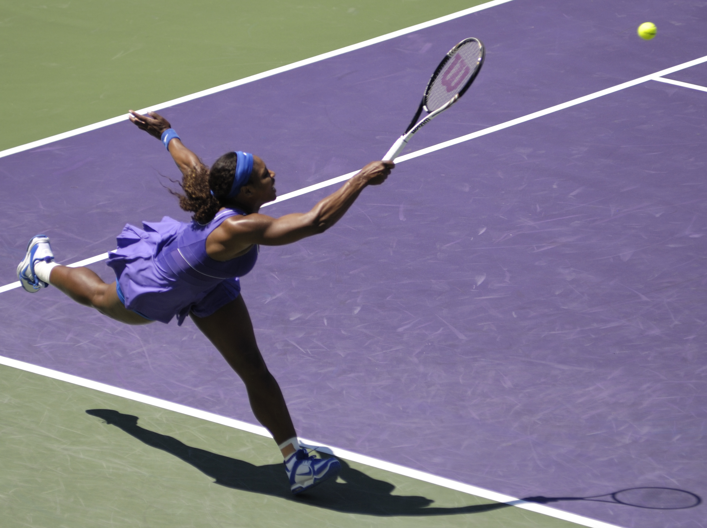 Serena Williams at Miami.